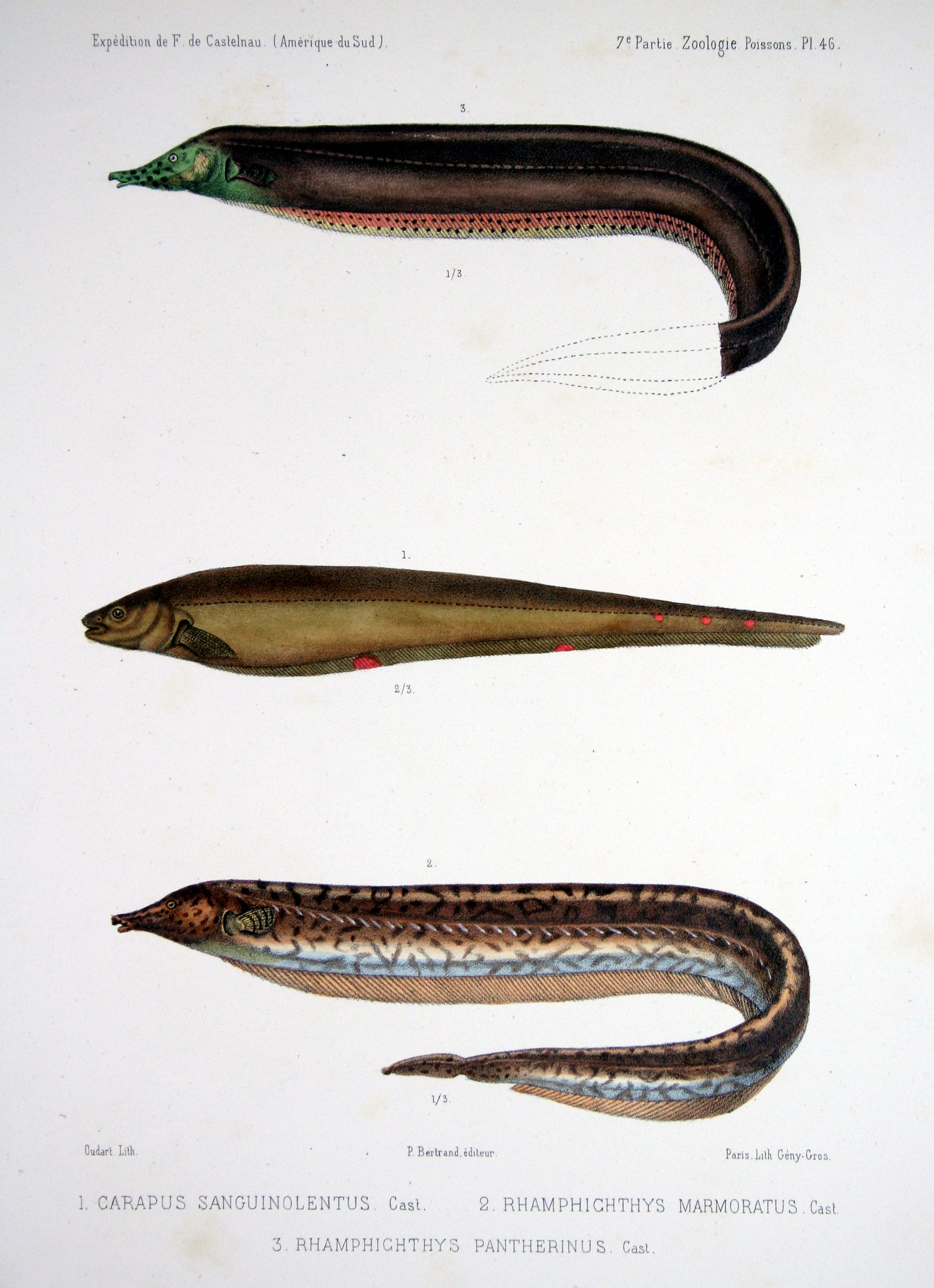 From top to bottom: Rhamphichthys pantherinus Cast. = Rhamphichthys pantherinus Castelnau, 1855 Carapus sanguinolentus Cast. = Sternopygus macrurus (Bloch & Schneider, 1801) Rhamphichthys marmoratus Cast. = Rhamphichthys marmoratus Castelnau, 1855